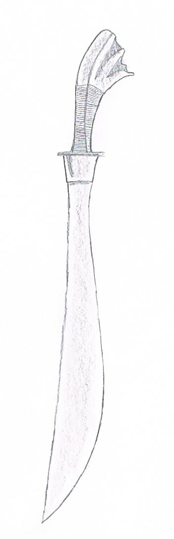 Golok